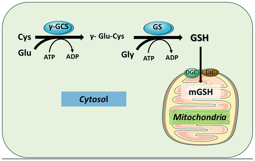 Glutathione (GSH) is the main non-protein thiol in cells whose functions are dependent on the redox-active thiol of its cysteine moiety that serves as a cofactor for a number of antioxidant and detoxifying enzymes.